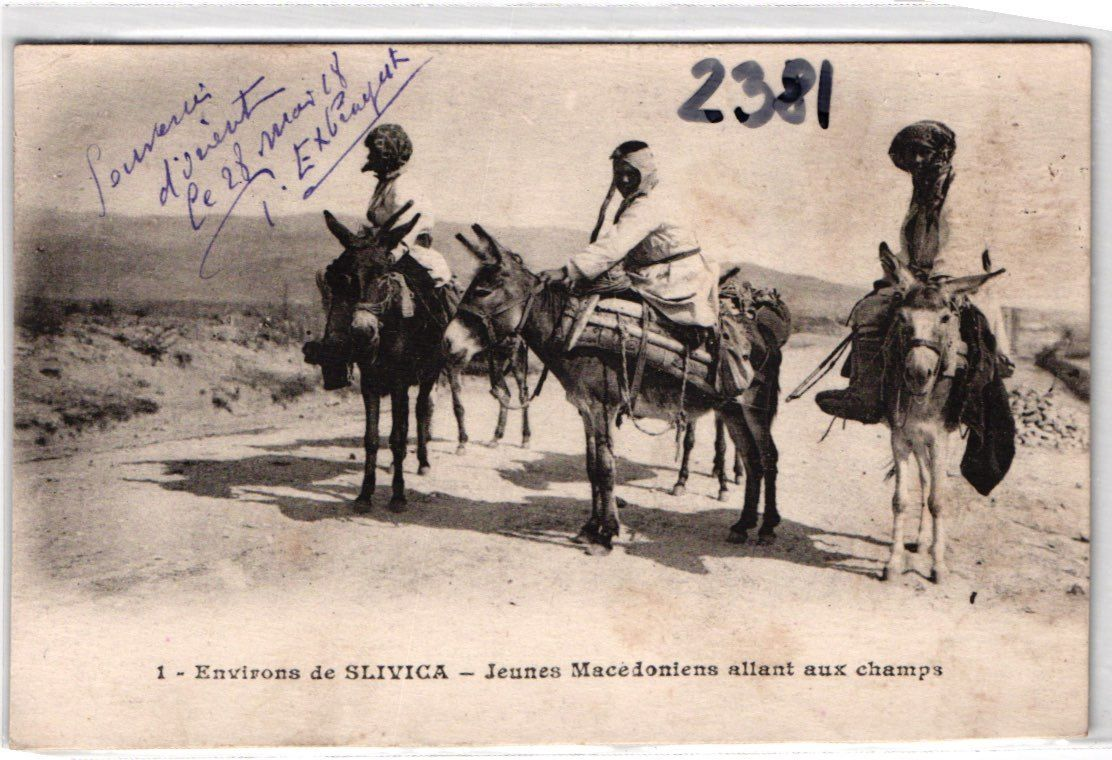 Men in Slivitsa in the WWI